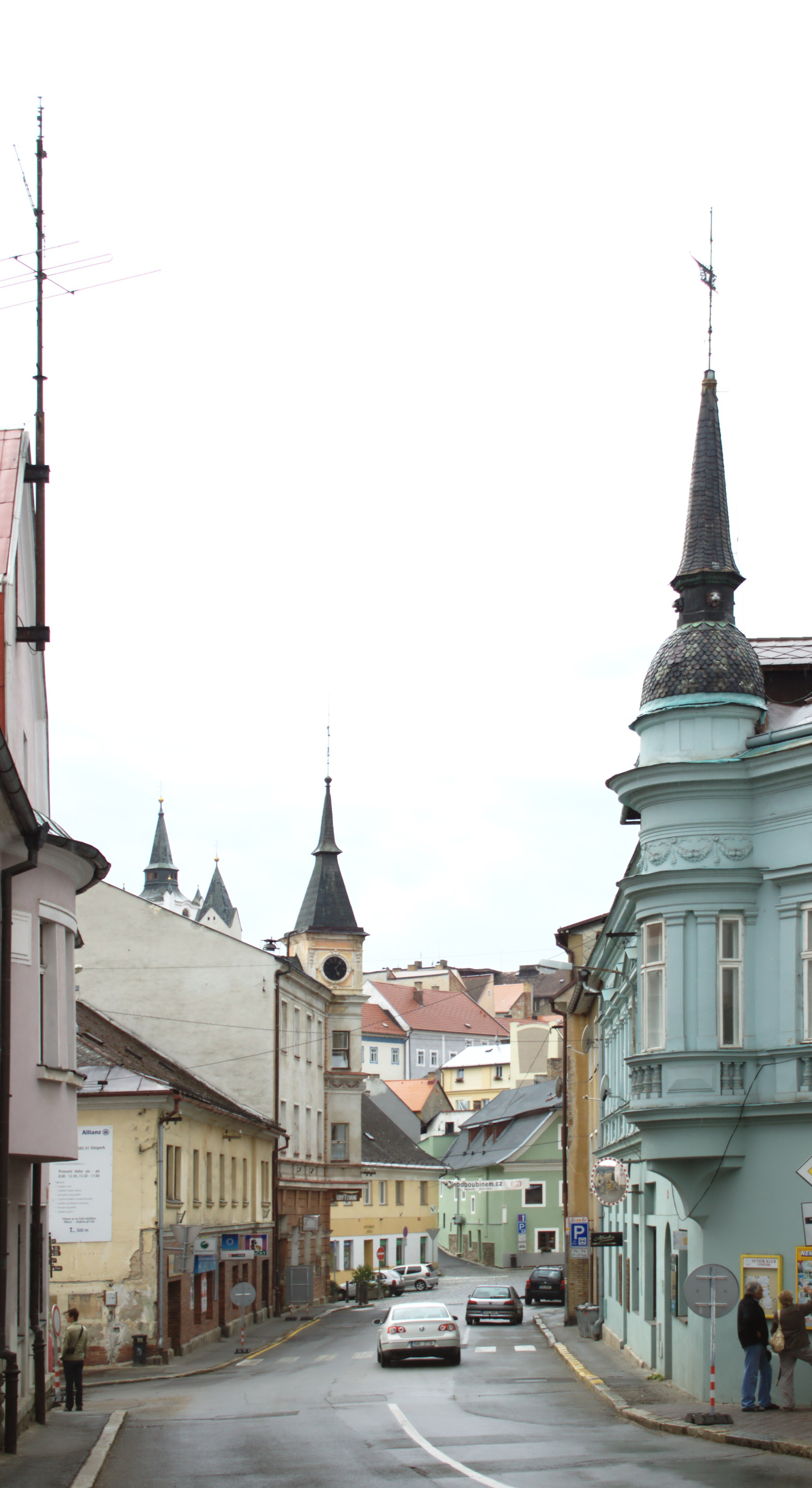 1. máje street in Vimperk, South Bohemian Region, CZ